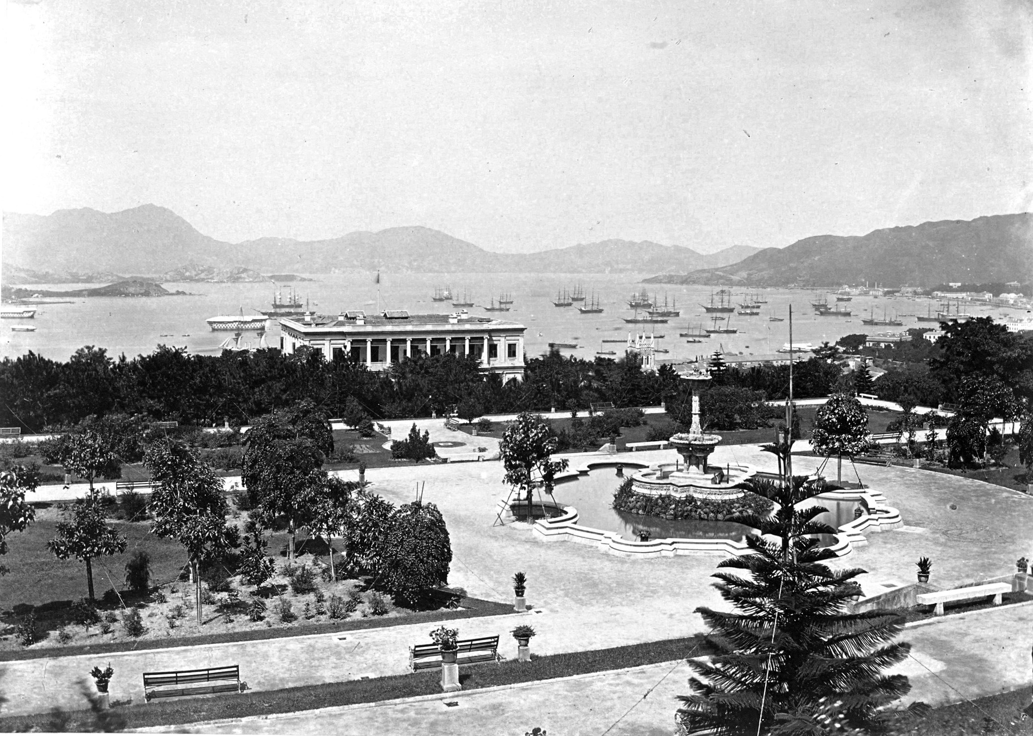 Photograph in From Afong, Photographer.